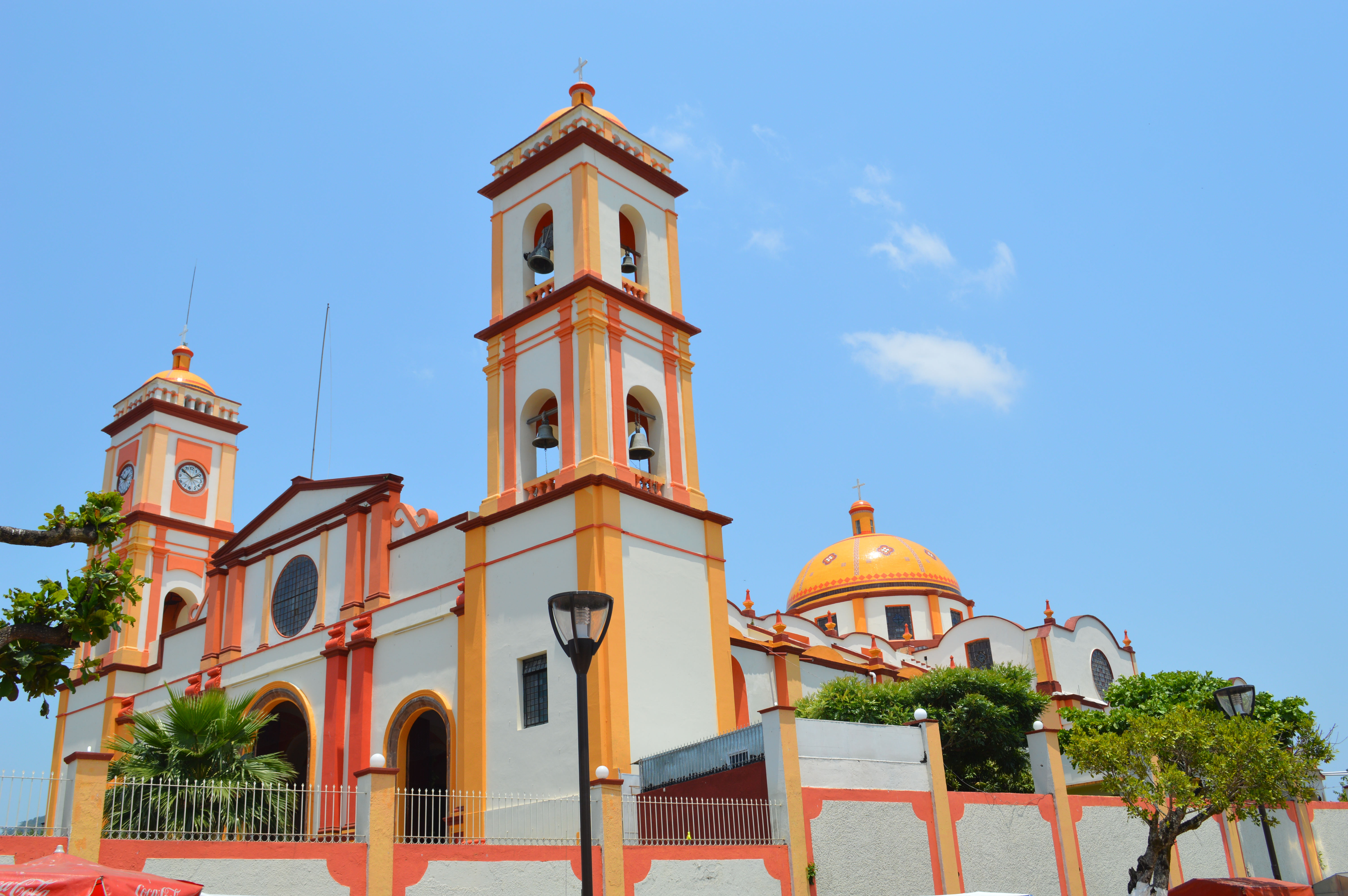 Cathedral in San Andres Tuxtla, Veracruz, Mexico